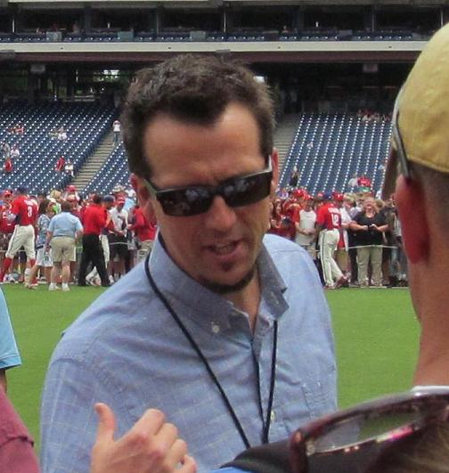 Scott Franzke in Philadelphia July 21 2012 in Philadelphia